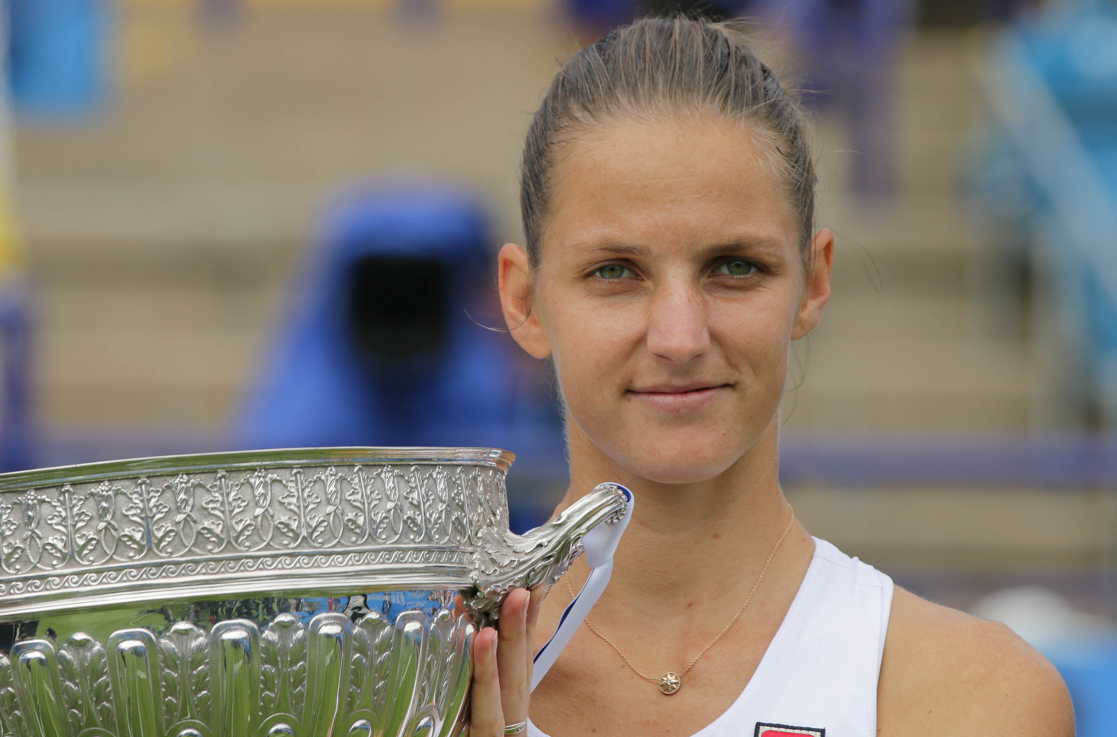 Aegon International Women's Final 2017 Pliscova v Wozniacki-949.jpg